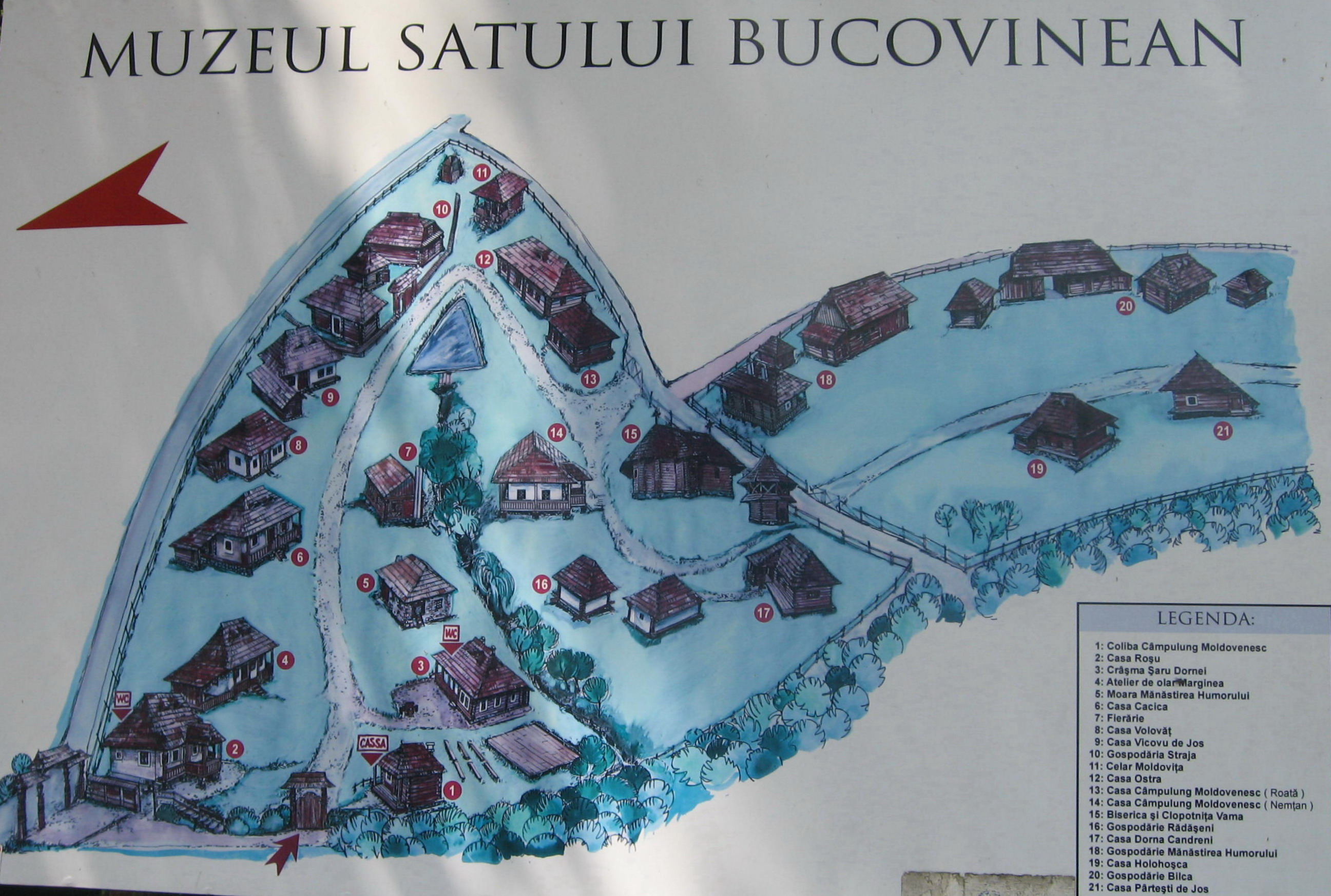 Bukovina Village Museum - The museum plan located on a panel at the museum entrance.